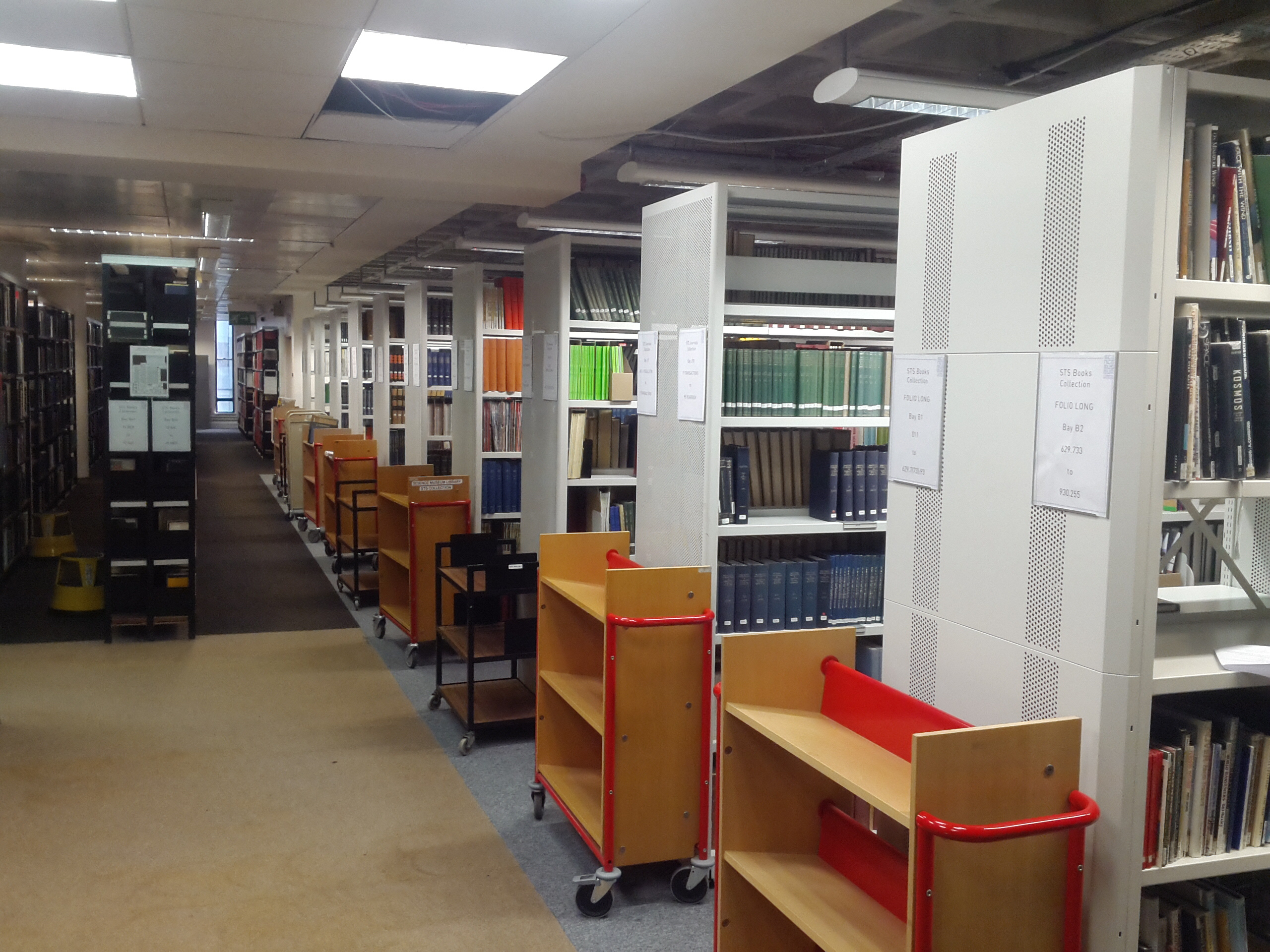 The Science Museum Library, London